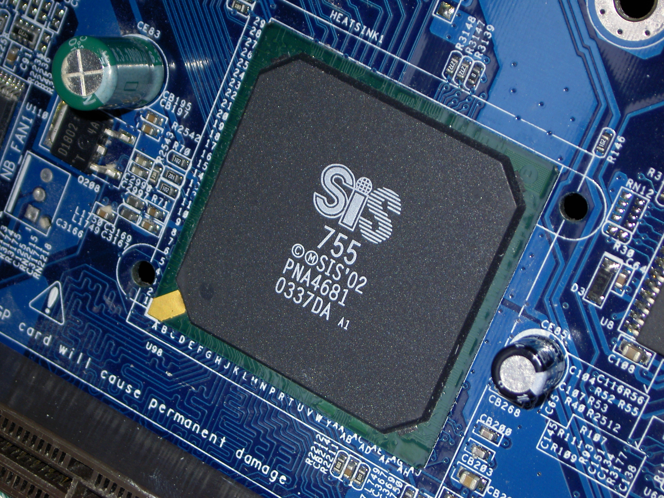 "SiS 755 NorhBridge"